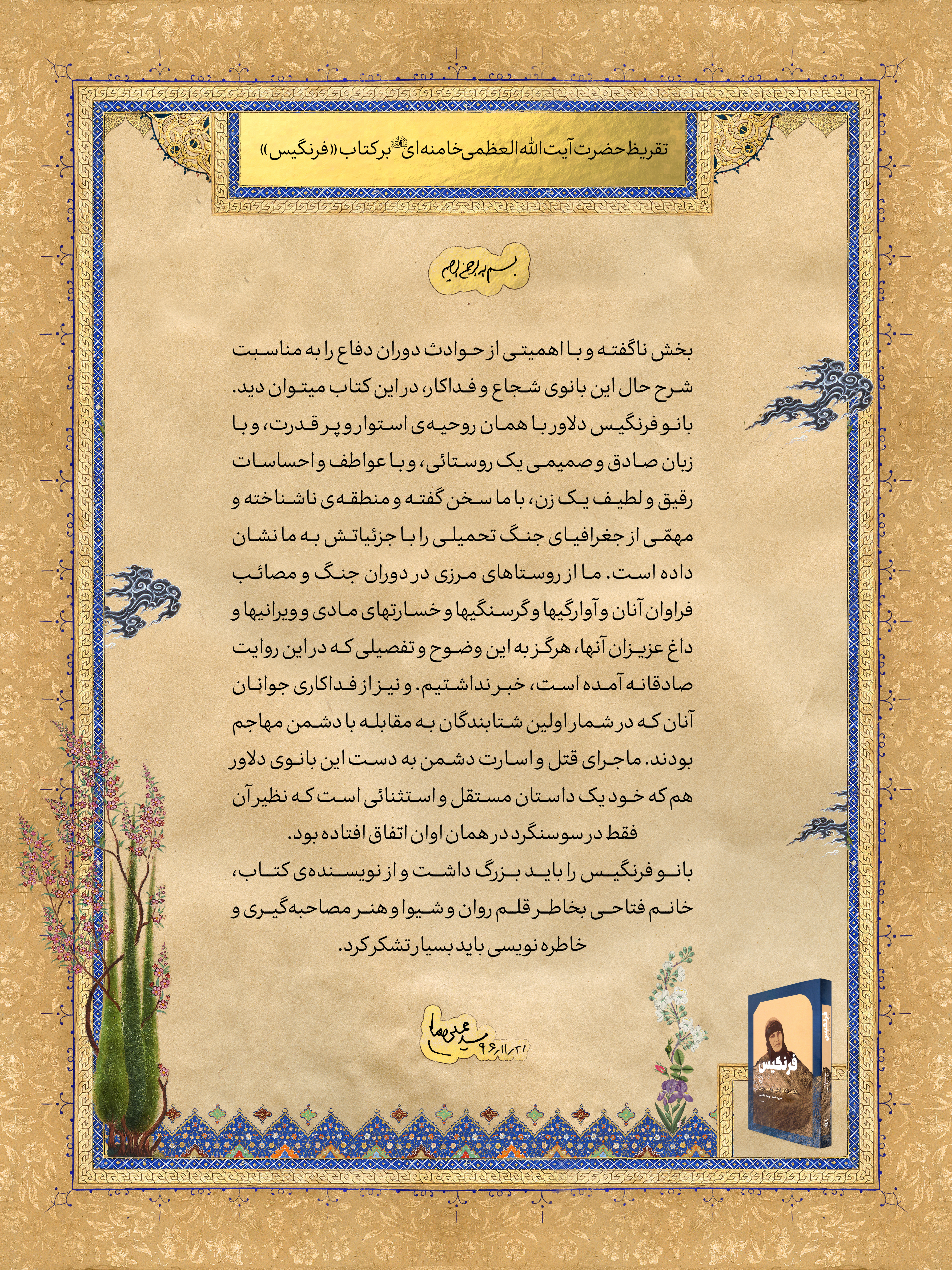 A commentary of Ali Khamenei on the biography of the lady Farangis Heydarpour